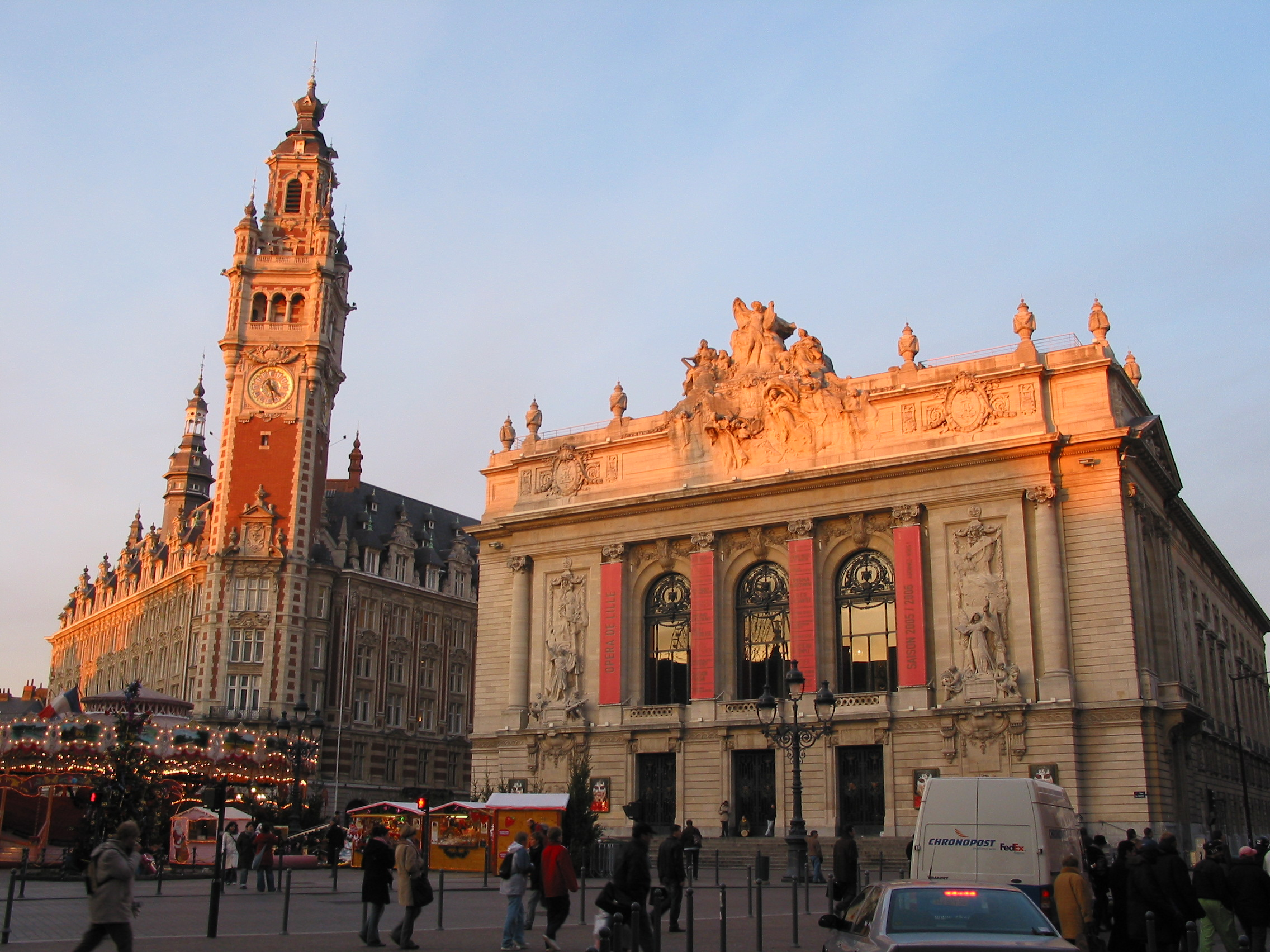 Lille (France), Opera (1914-1923) and belfry of the trade Chamber (1910-1921) - Architect: Louis Marie Cordonnier.